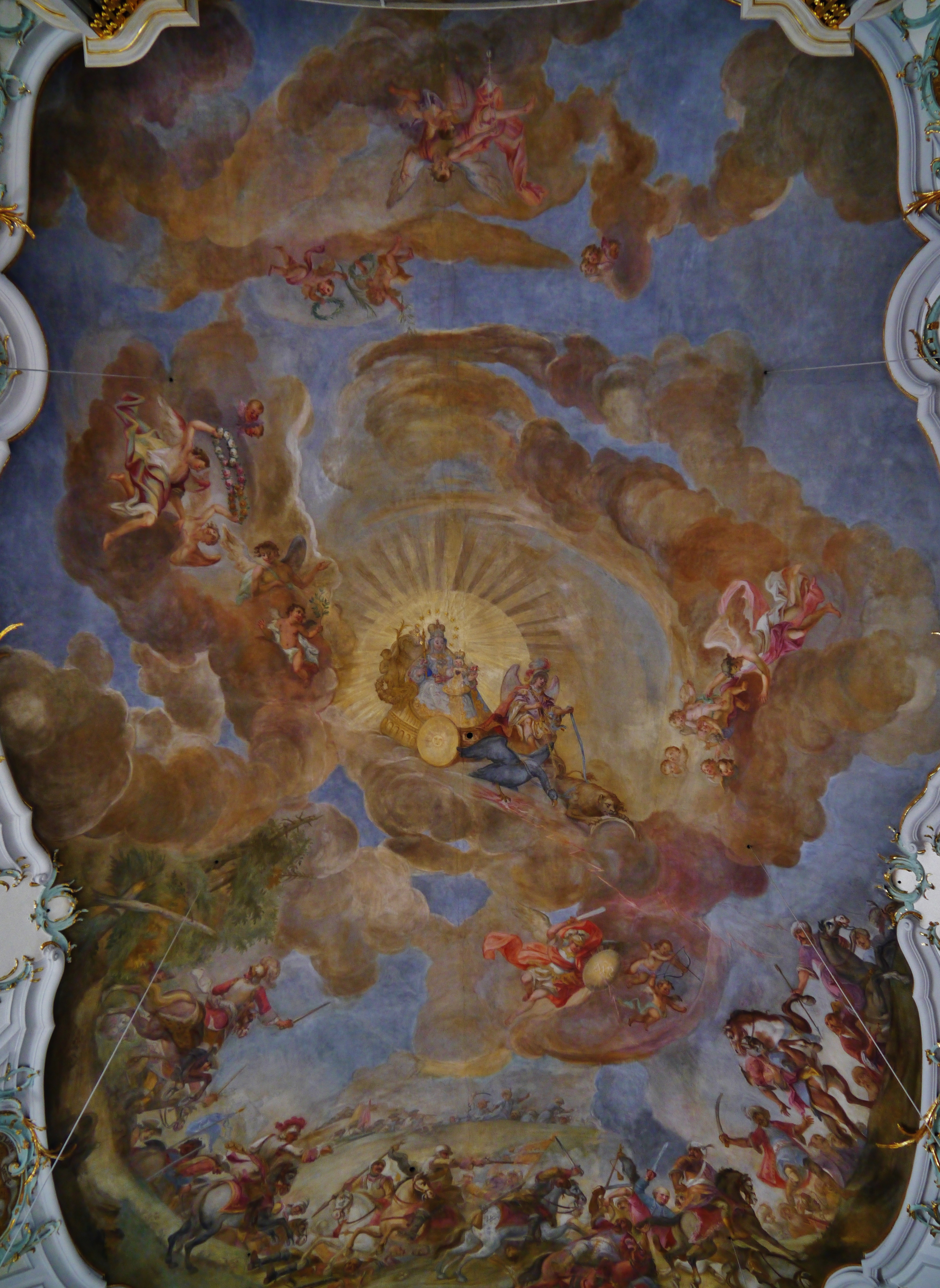 Ceiling of St. Magdalene, Fürstenfeldbruck, Bavaria, Germany